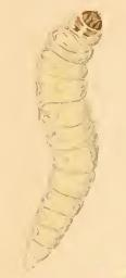 Stainton’s Natural History of the Tineina (1855–1873): Eriocrania unimaculella